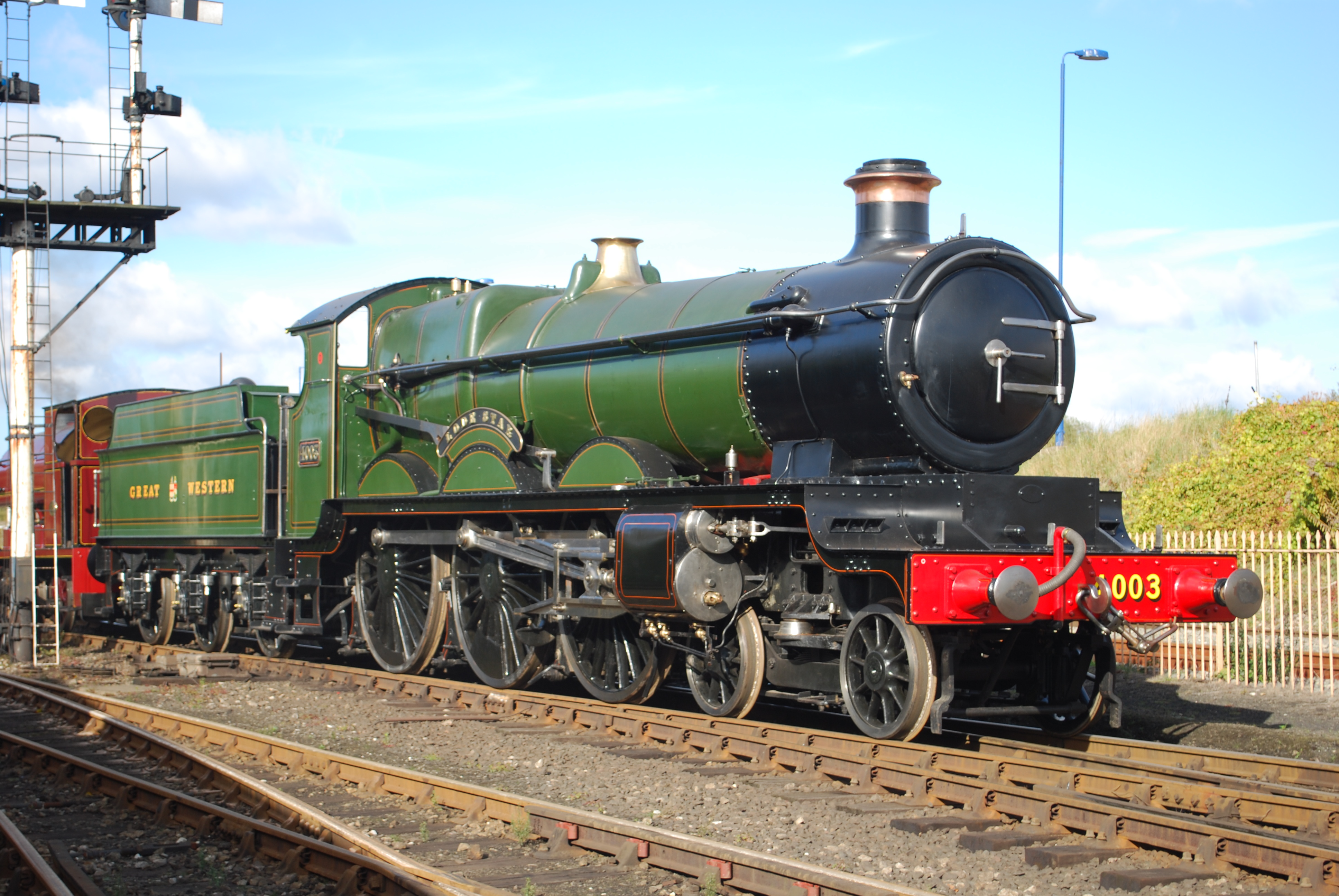 What a beauty! Great Western Railway "Star" 4-6-0 No.4003 Lode Star still in the livery it was repainted-in in 1948 when it was preserved by the GWR; that livery was 1923 GWR lined Brunswick Green (officially Middle Chrome Green) with the 1928 simplified coat of arms. Churchward designed many outstanding classes but the Star Class of 1906 was arguably his masterpiece of masterpieces, combining French, American, Belgian and British influences. The Stars were regarded by GWR drivers as the most free running of all GWR designs - even moreso than the Castles. The last Star was not withdrawn until 1957 - 51 years after the first appeared, which is a worthy testament to the capability of the design. A very rare foray into the open air for Lode Star in transit from the NRM York to "Steam" Swindon. A 3,500 gll Churchward tender is attached. 10/10.